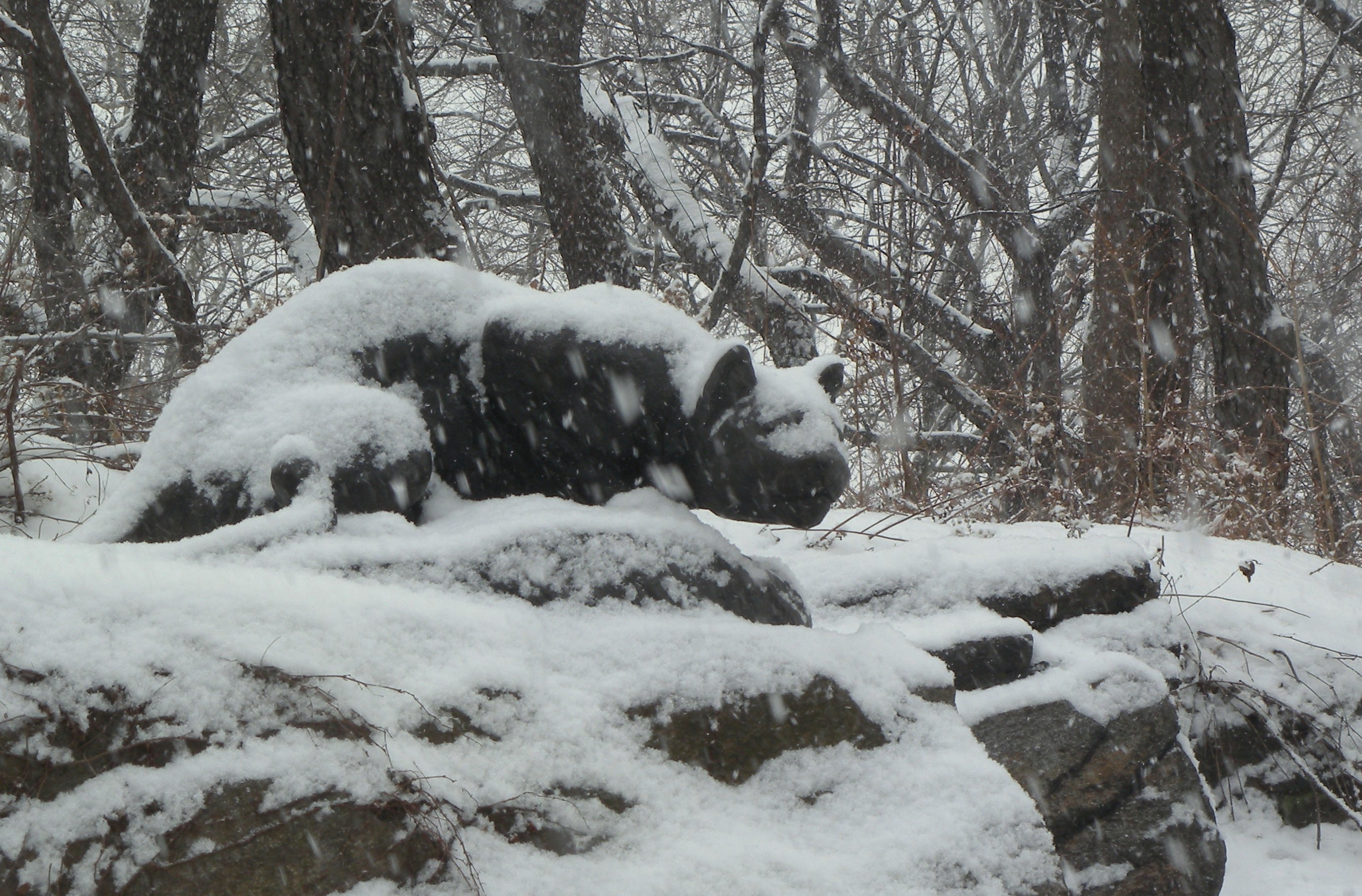 Looking northwest, full zoom, at "Still Hunt" cat awaiting unwary joggers on File:Cat Hill snowing jeh.jpg while snow is falling.